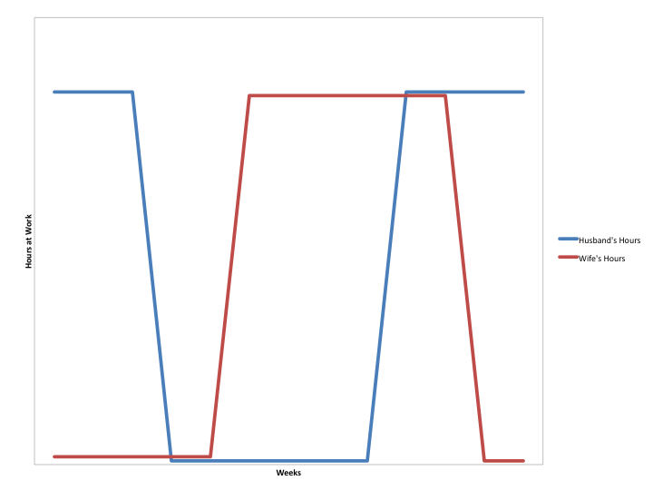 Simplified Model of Added Worker Effect